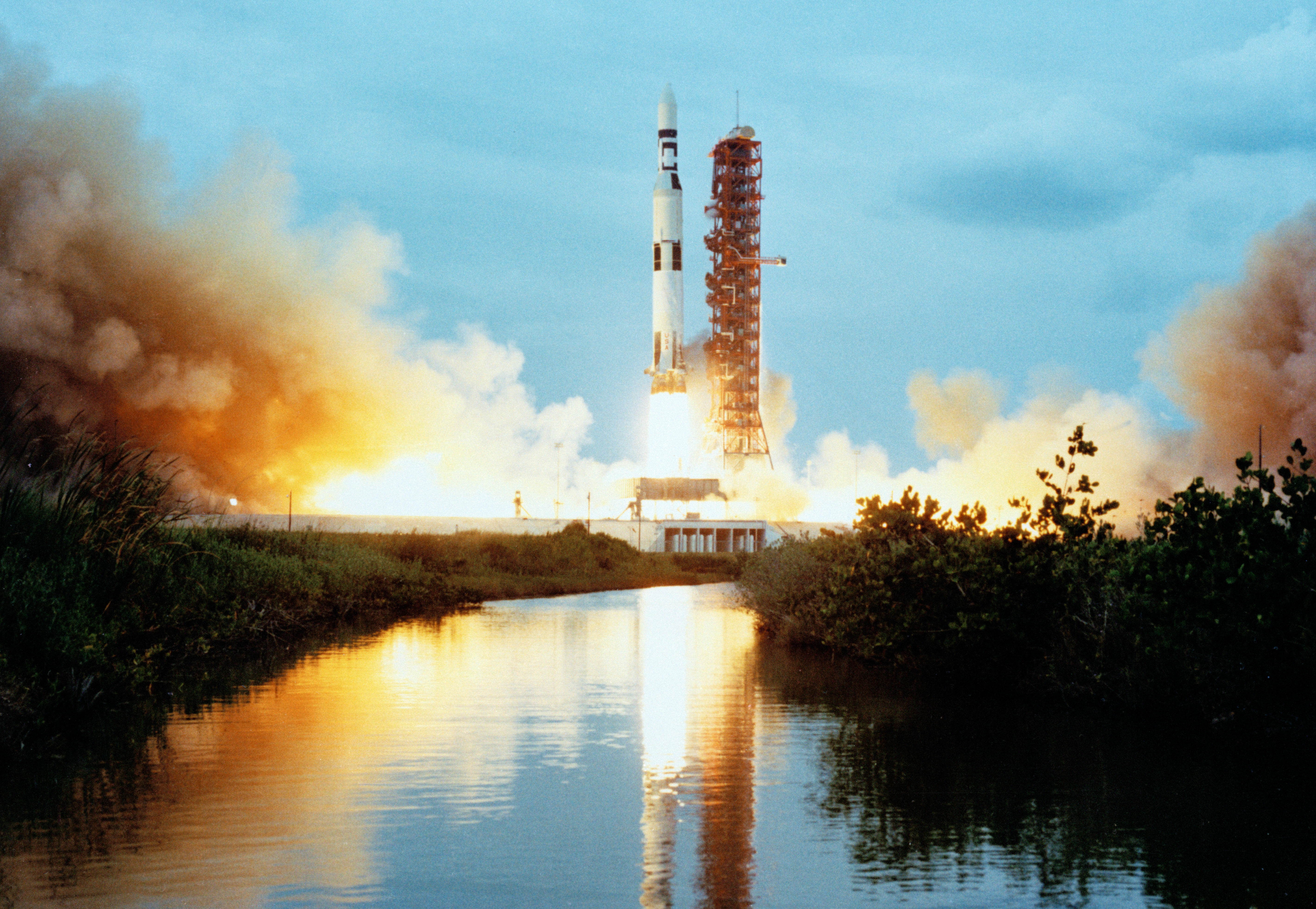 The unmanned Skylab 1/ Saturn V Space Vehicle is launched from Pad A, Launch Complex 39, to place the Skylab Space Station cluster in Earth orbit. The Skylab 1 payload included four of the five major components of the Space Station-Orbital Workshop, Apollo Telescope Mount, Multiple Docking Adapter, and Airlock Module. In addition to the payload, the Skylab 1 / Saturn V second S-11 stage. The fifth major component of the Space Station, the Command Service Module with the Skylab 2 crew aboard, was launched at a later date by a Saturn 1B from Pad B.